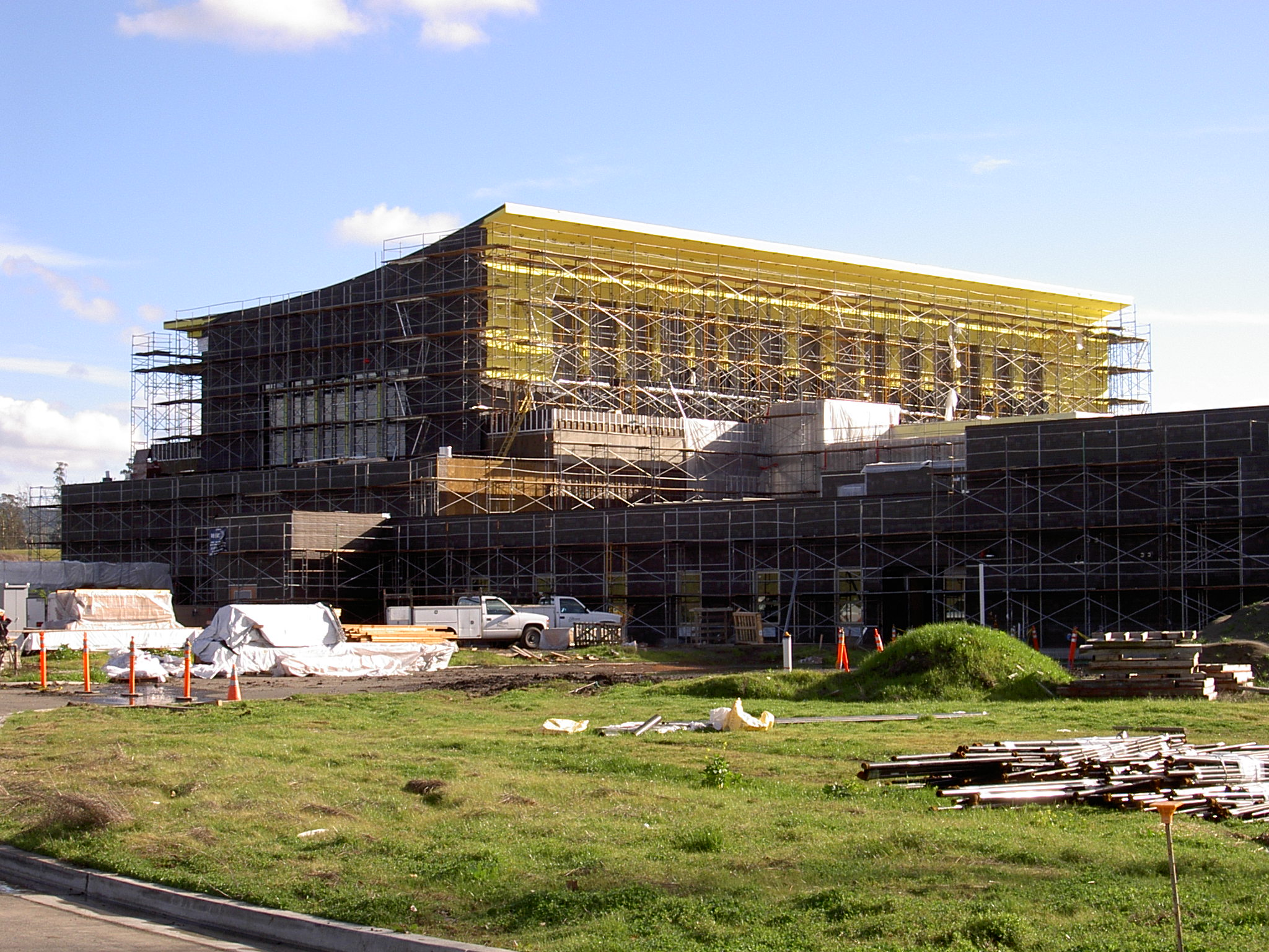 Green Music Center at Sonoma State University under construction